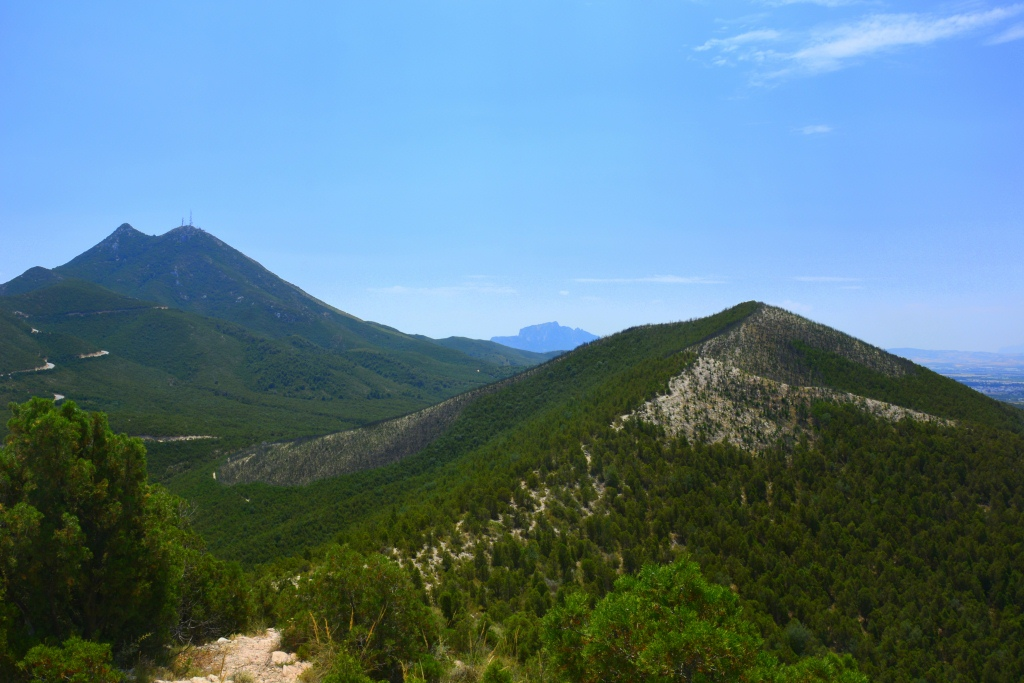 View from the inside of the Parc Boukornine.